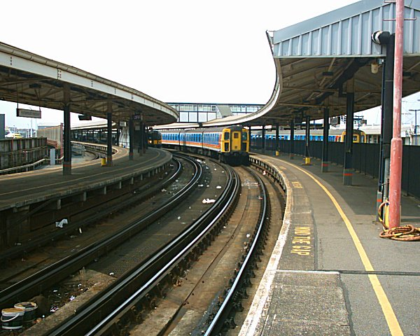 Portsmouth Harbour Station, Portsmouth in 2004.